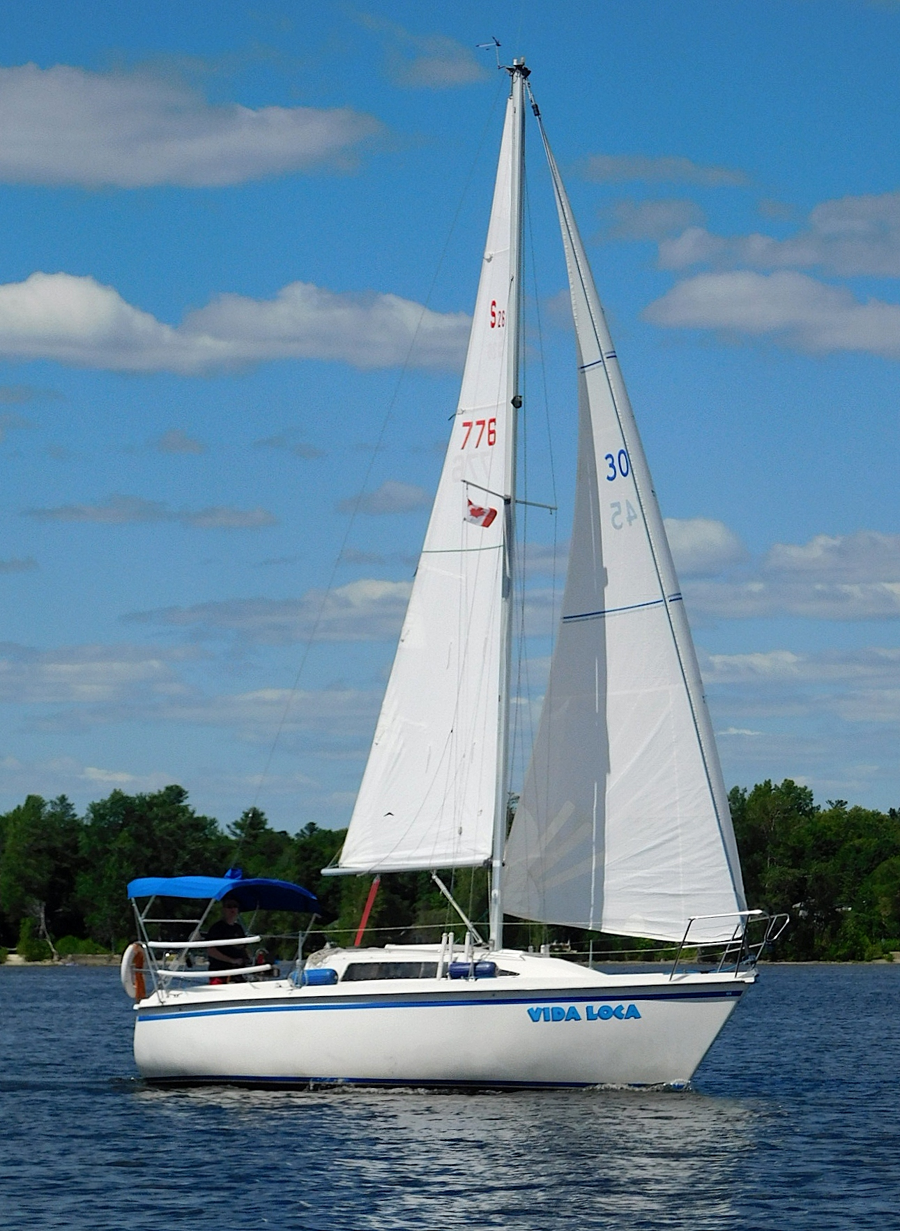 A Sandstream 26 sailboat named Vida Loca.